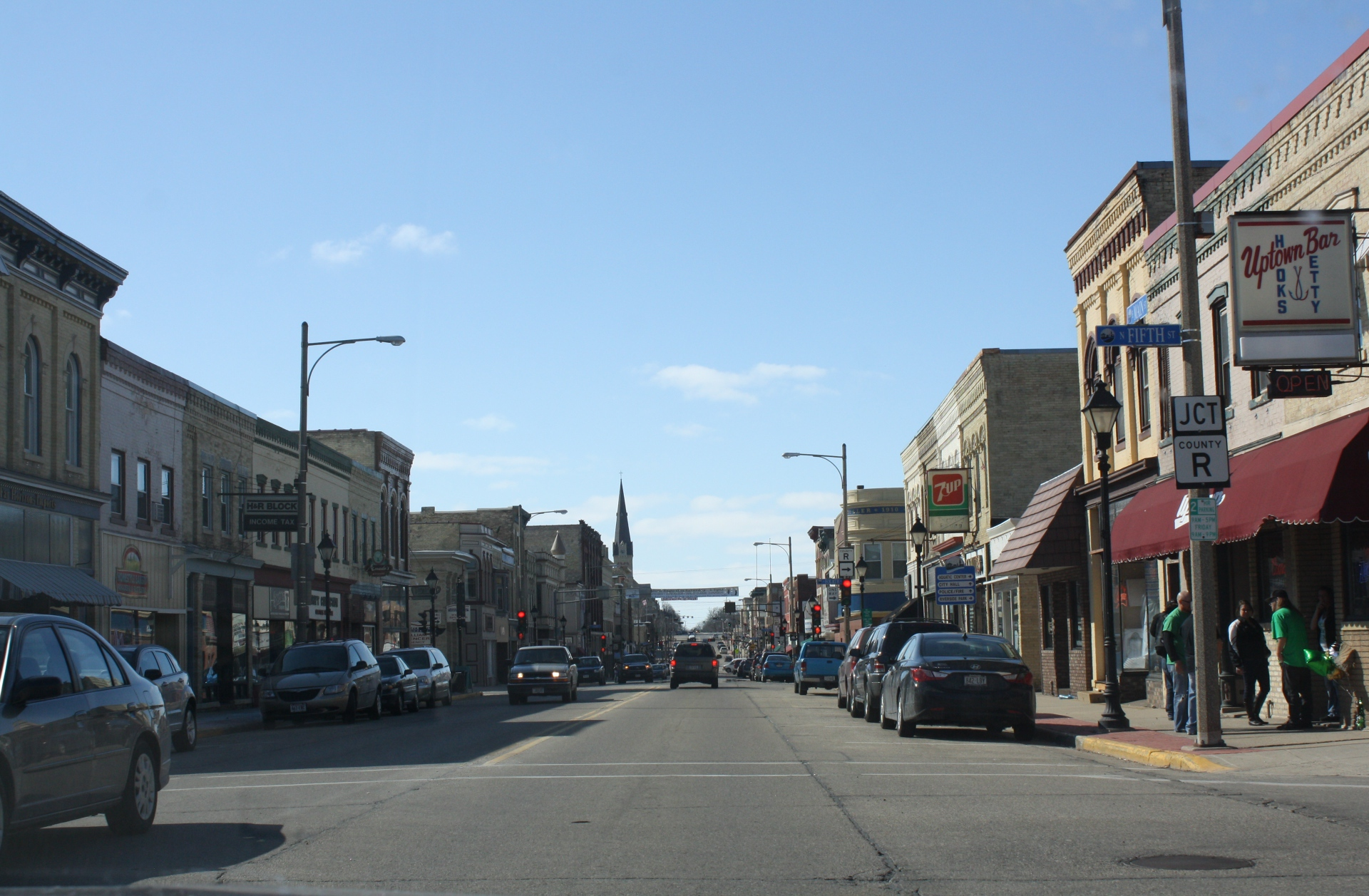 The Watertown Main Street Historic District — in Watertown, southern Wisconsin. Wisconsin Highway 19 is also named Main Street within the city. Listed on the National Register of Historic Places in Jefferson County, Wisconsin.